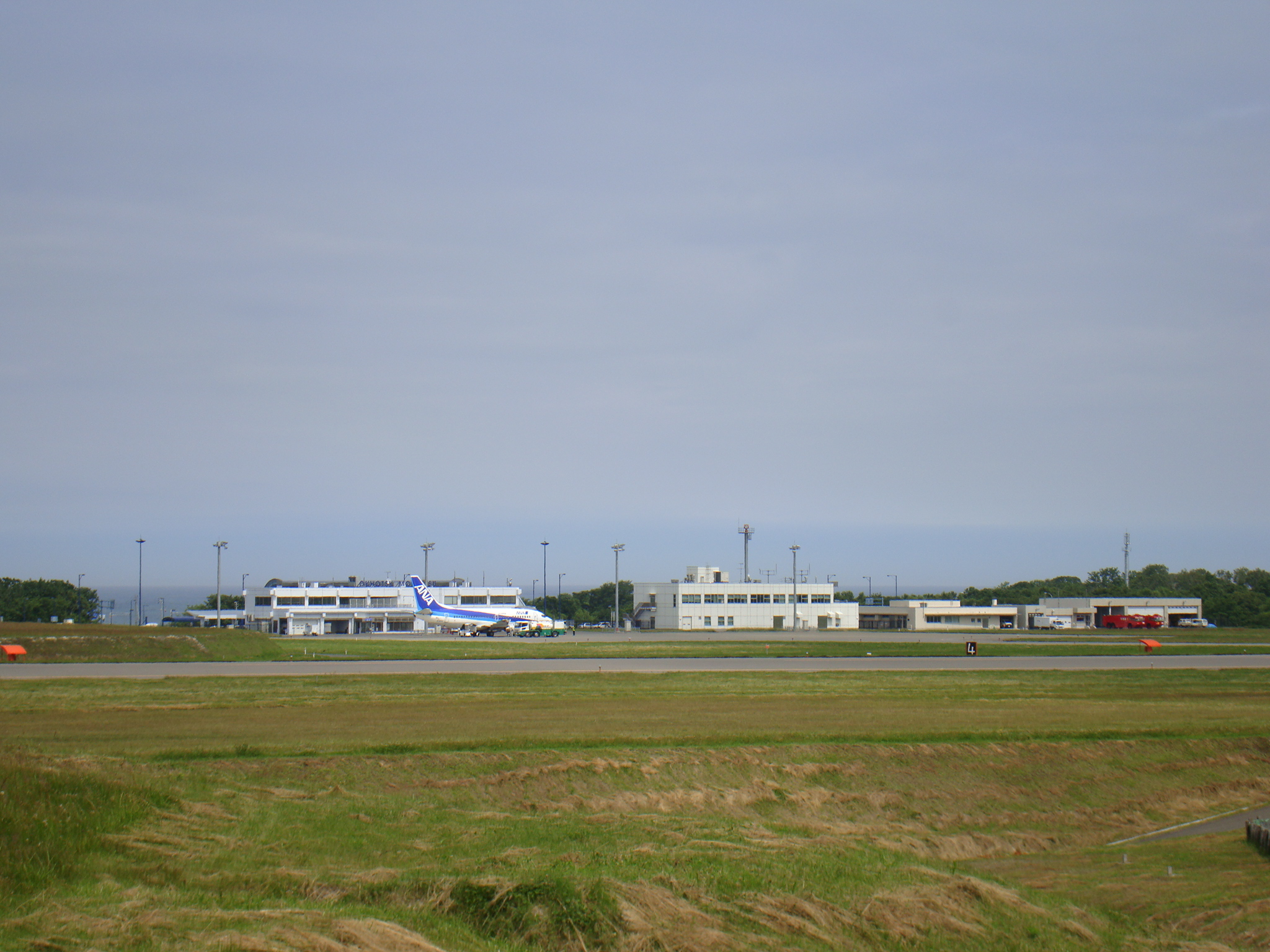 Okhotsk Monbetsu Airport